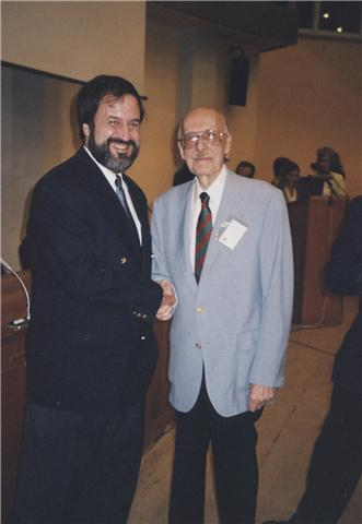 Bob Shprintzen (left) and Angelo DiGeorge in Rome 2002